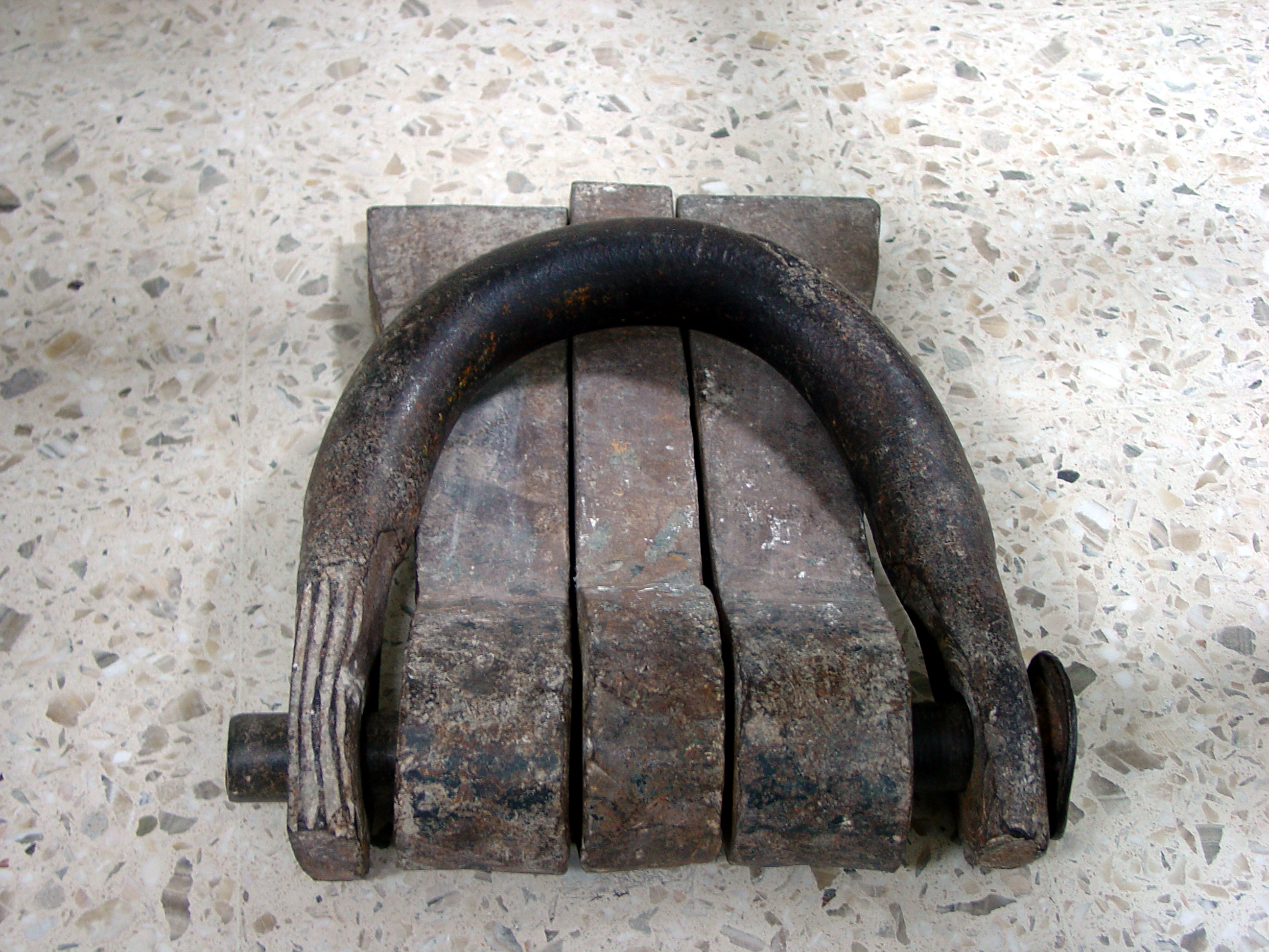 This Roman-era lifting clamp is displayed at the American Center of Oriental Research in Amman, Jordan. It was used in the construction of the Temple of Hercules on Amman's Citadel.